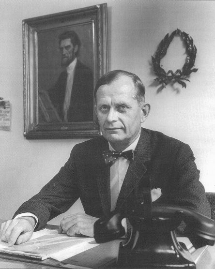 Photograph of the Finnish composer Nils-Eric Ringbom (1907–1988) at work.